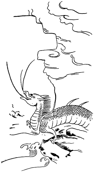 "Shen" (蜃) from the Wakan Sansai Zue (和漢三才図会)